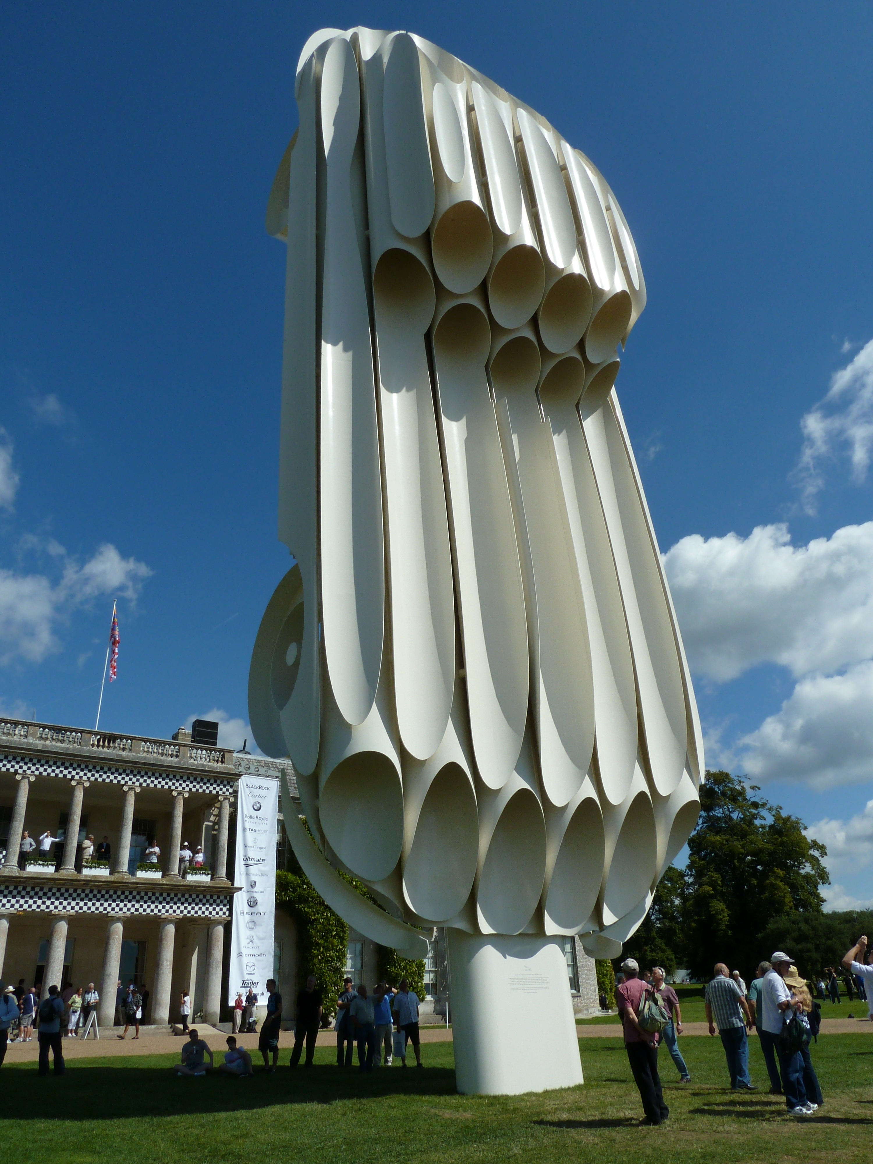 Jaguar E-type Goodwood 2011